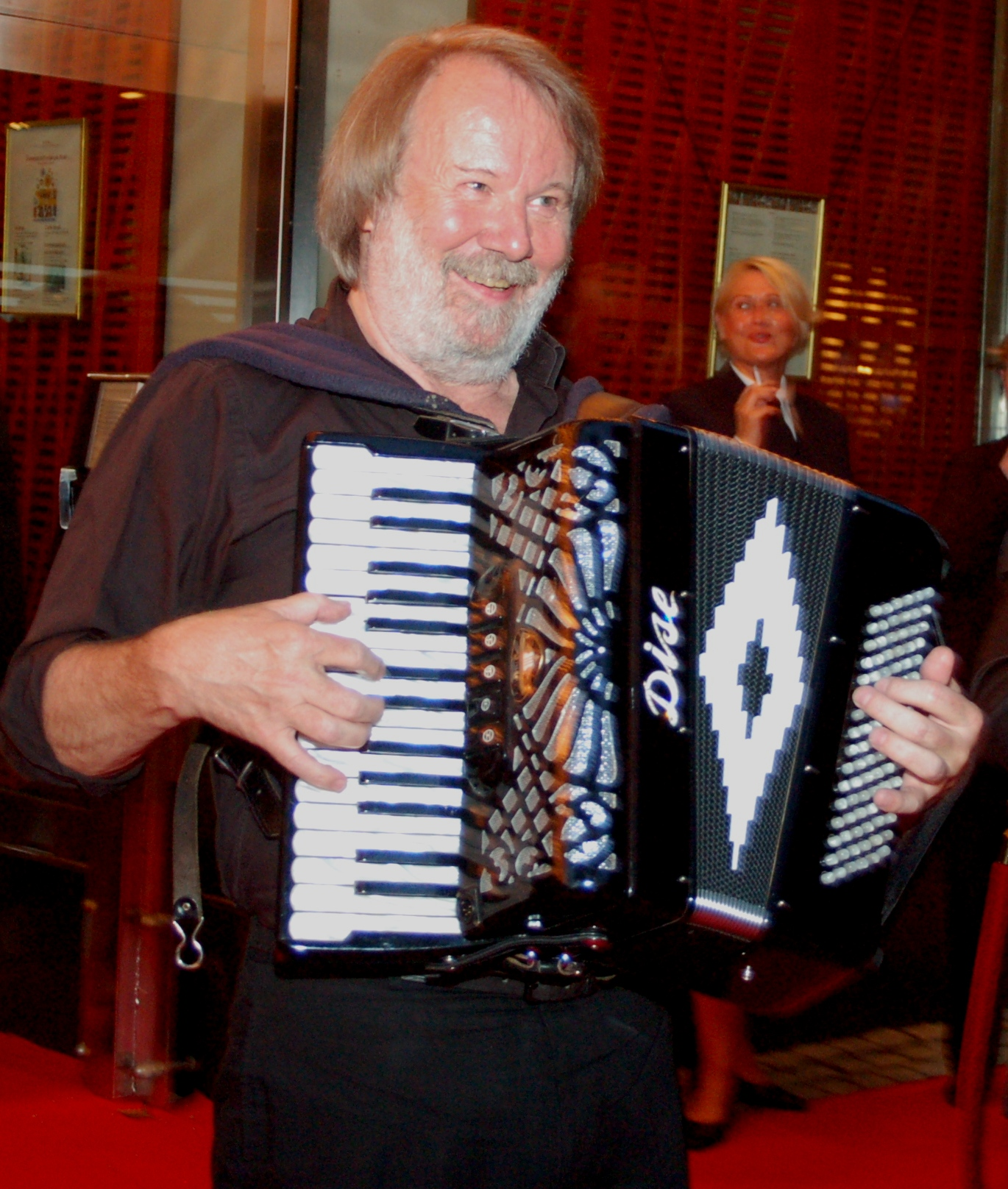 Benny Andersson